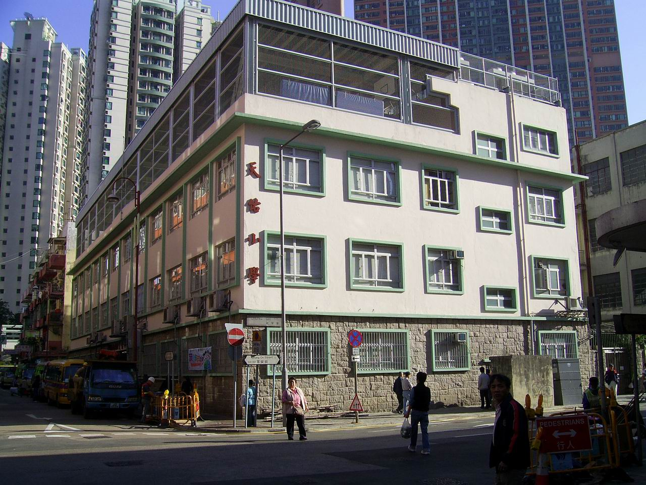 Mary of Providence Primary School